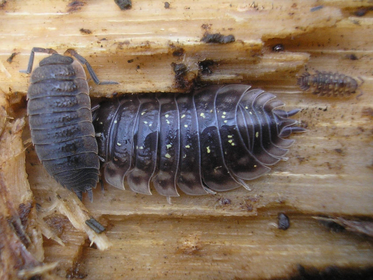 Porcellio scaber (left) and Oniscus asellus (center and juvenile on right)Location: Zalné, Netherlands